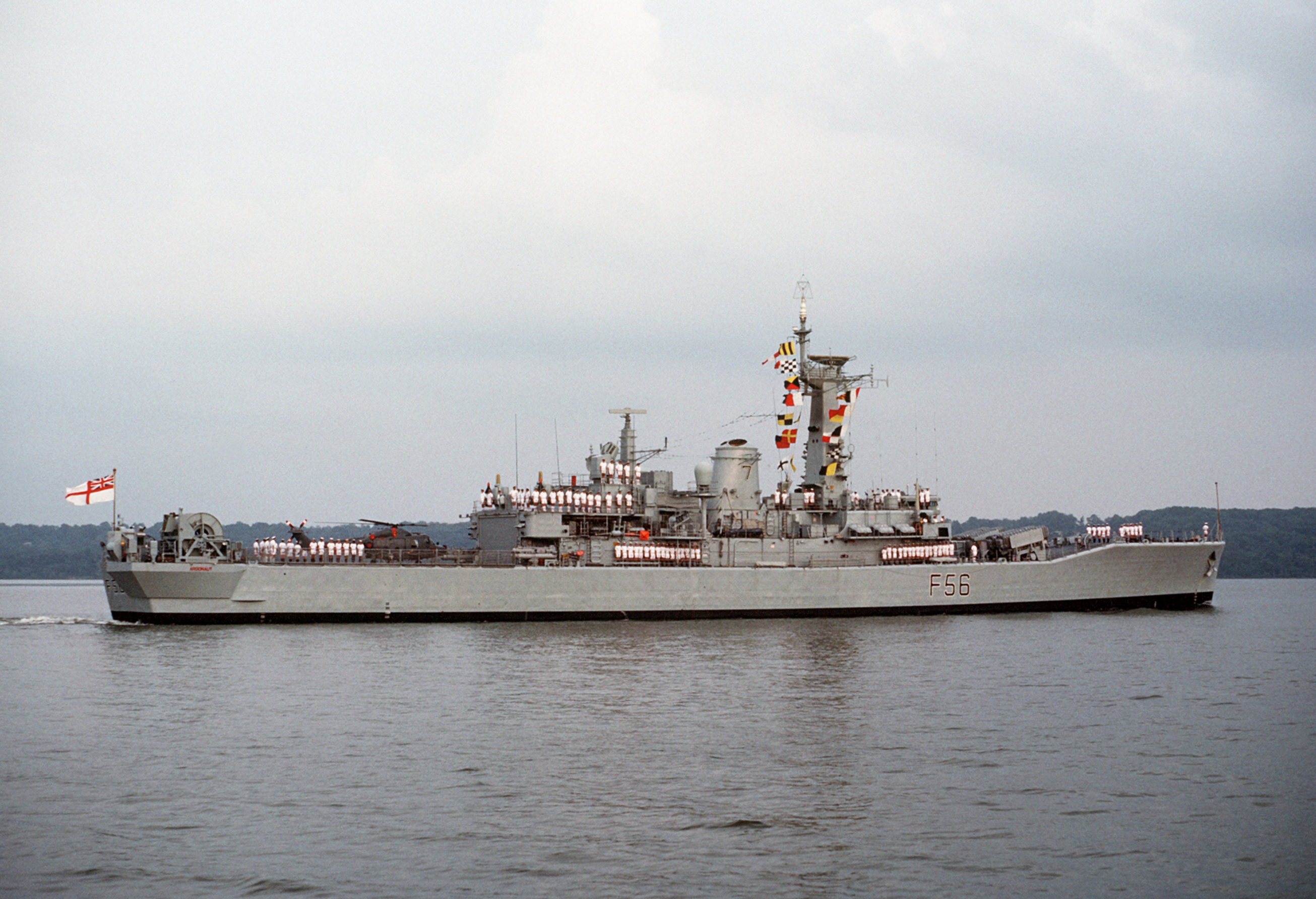 The British Leander-class frigate HMS Argonaut (F56) underway on the Potomac River, Virginia (USA), on 26 August 1985, with her crew manning the rail.